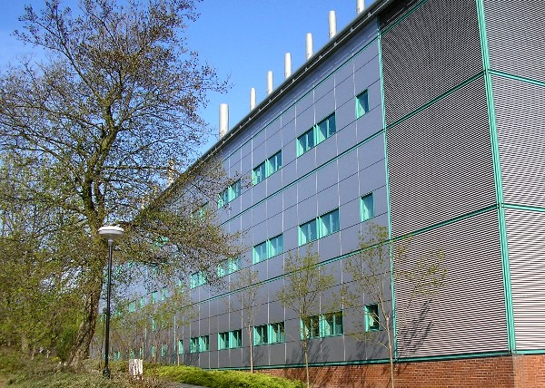 Joseph Black building, University of Edinburgh The School of Chemistry laboratories.